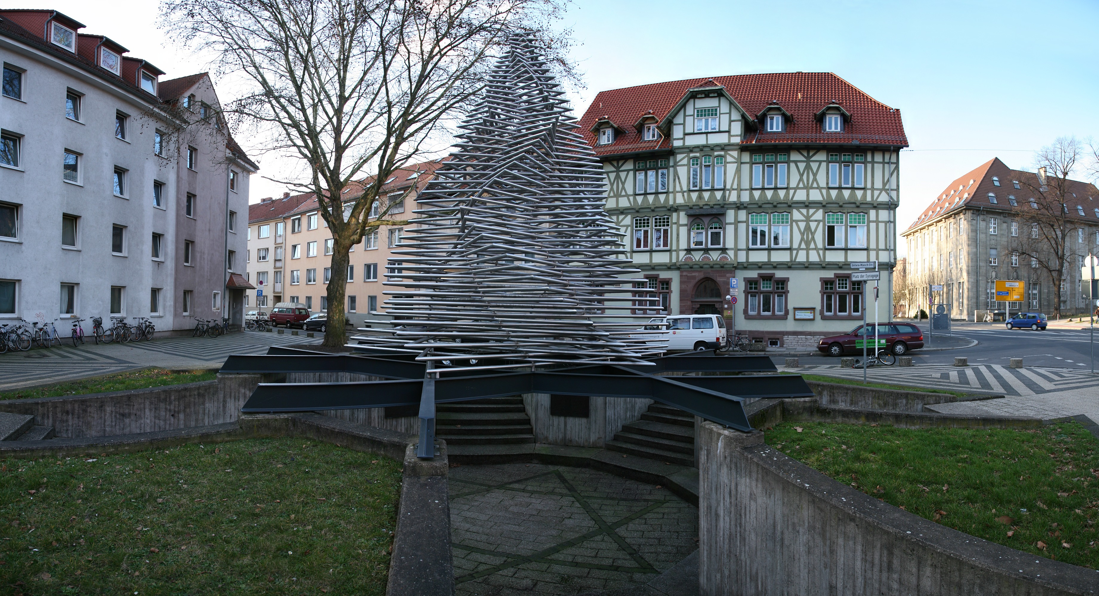 Sculpture/memorial (1973) by Conrad Cagli ,Platz der Synagoge, Göttingen, Germany